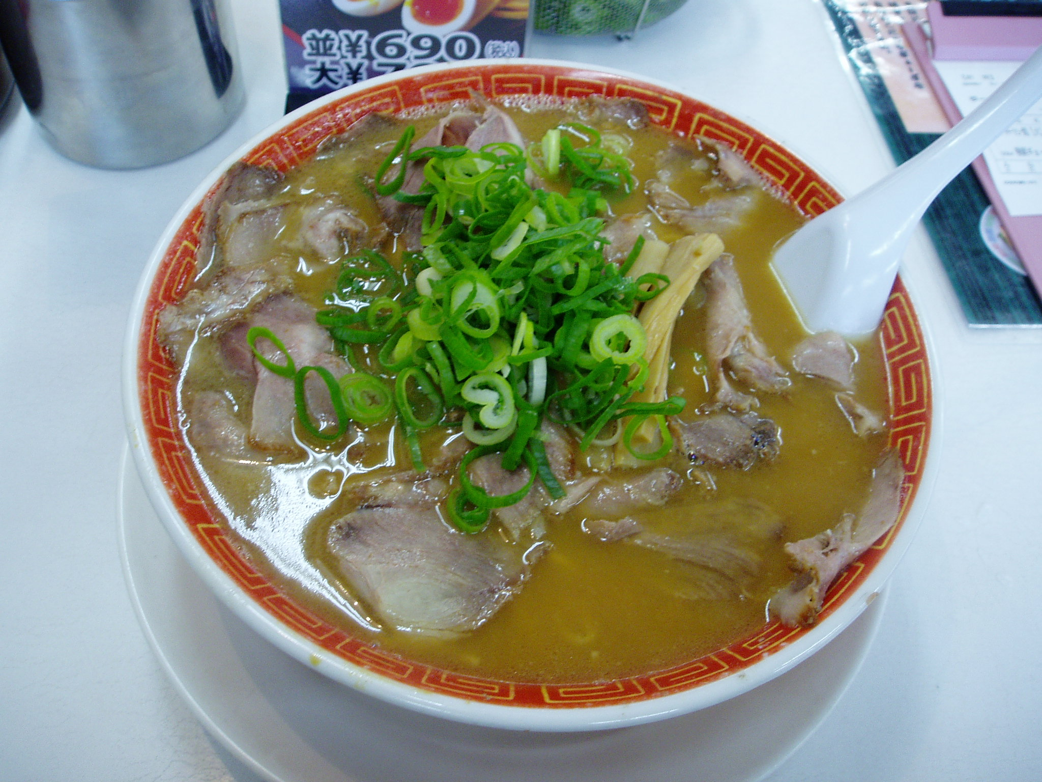 Yokozuna ramen (Kyoto), taken by original uploader on May 27th, 2006.